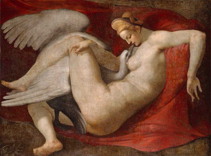 copy of a lost painting by Michelangelo